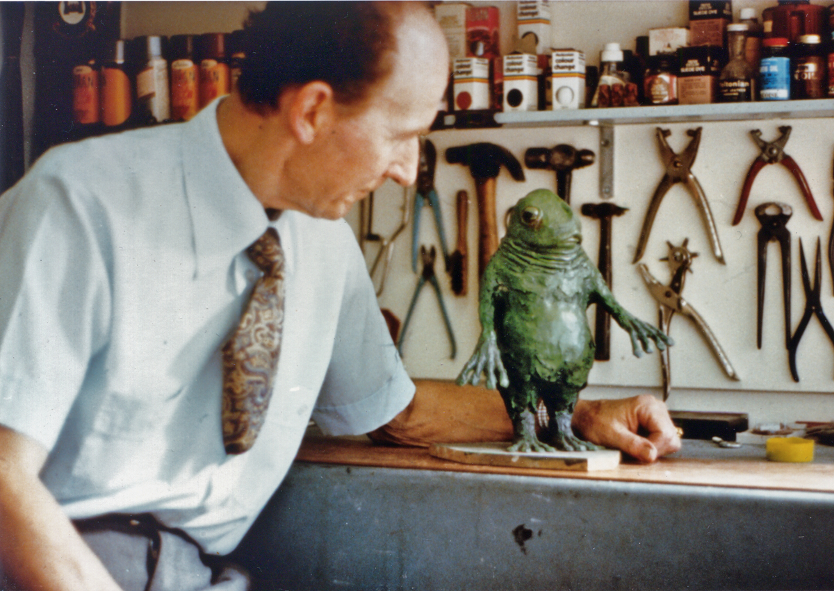 Artist Peter Kravchenko with his model of Potkoorok, created for the Australian Broadcasting Commission television mini-series The Nargun and the Stars, filmed in 1977 and screened in 1981.